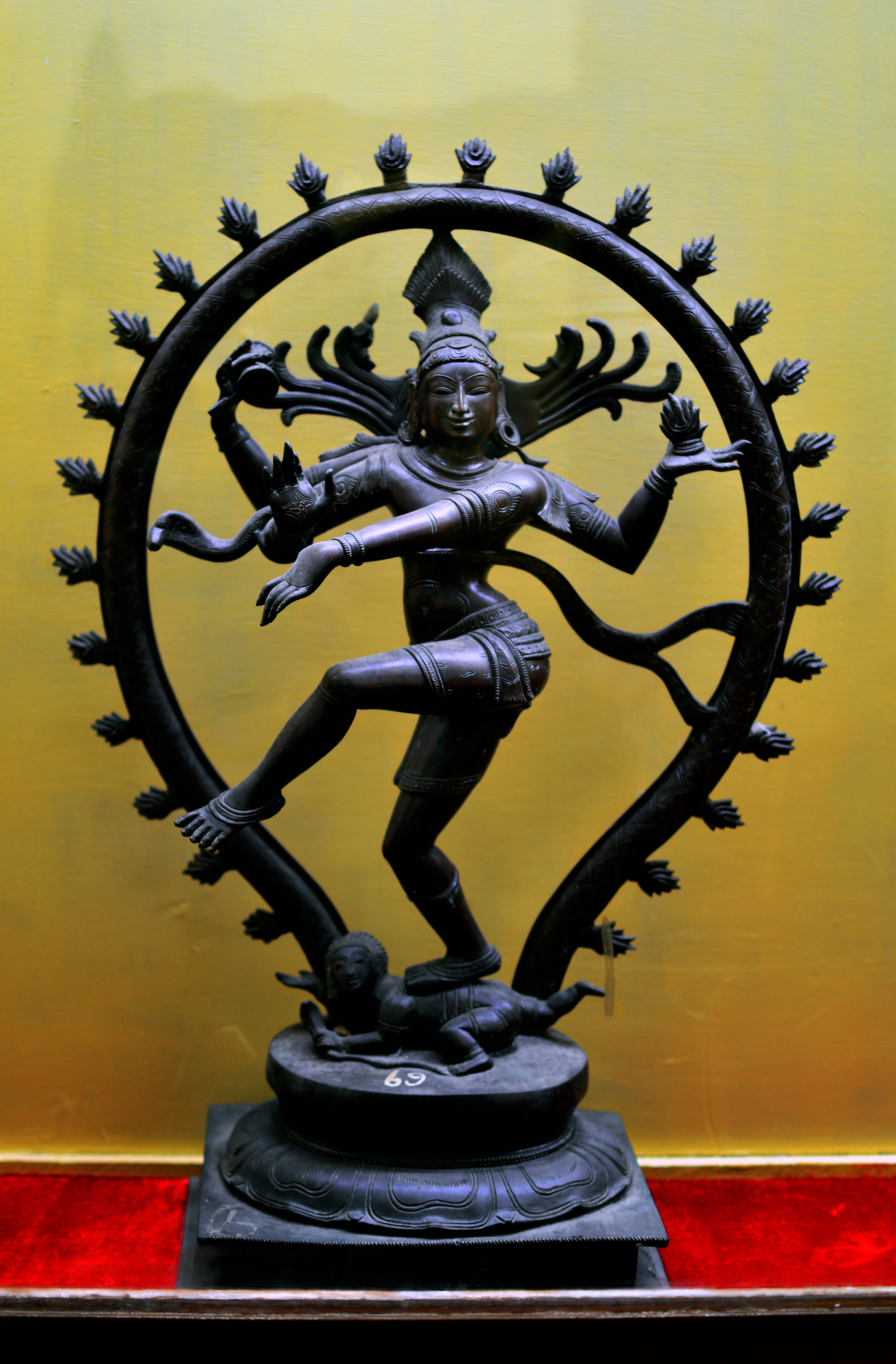 Nataraja is a depiction of the Hindu God Shiva as the cosmic dancer who performs his divine dance to destroy a weary universe and make preparations for the god Brahma to start the process of creation.